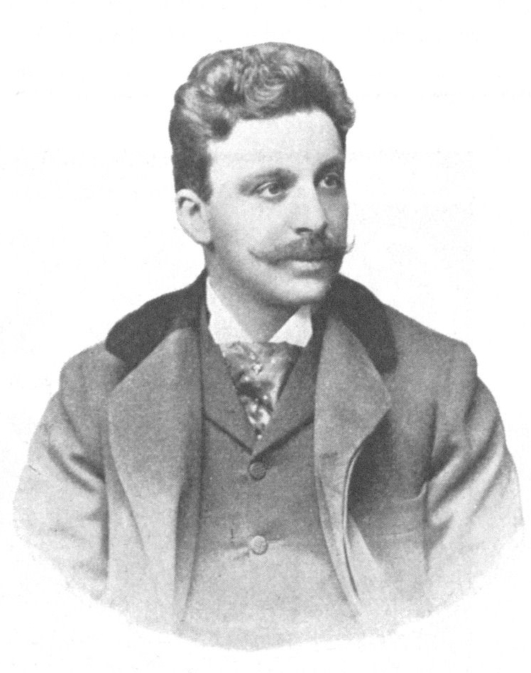 Photograph of Hugo Felix (1866-1934), Austrian composer of operettas.